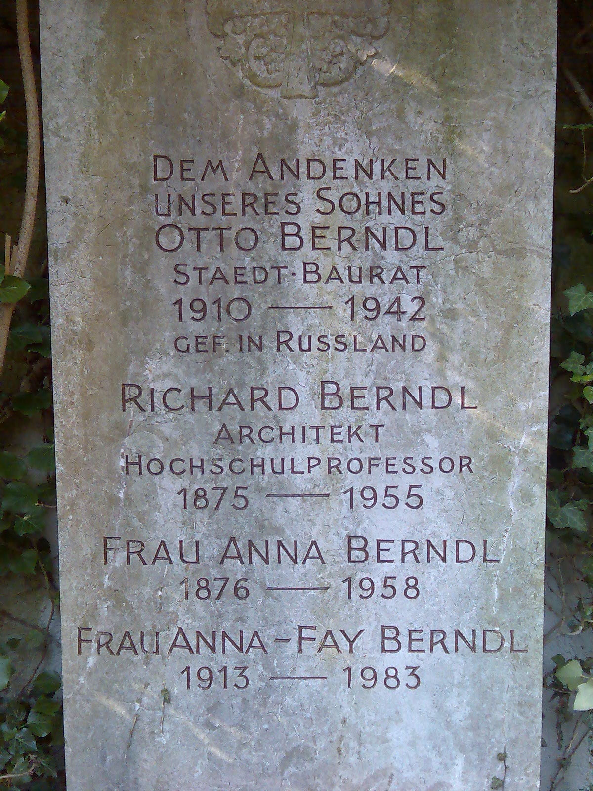 Tomb of R. Berndl. accessible public cemetery in munich